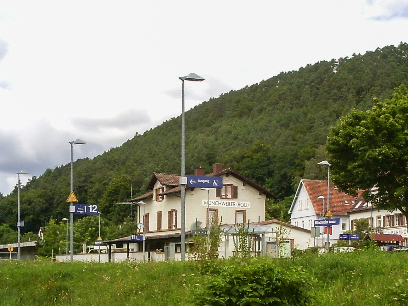 Münchweiler an der Rodalb train station.